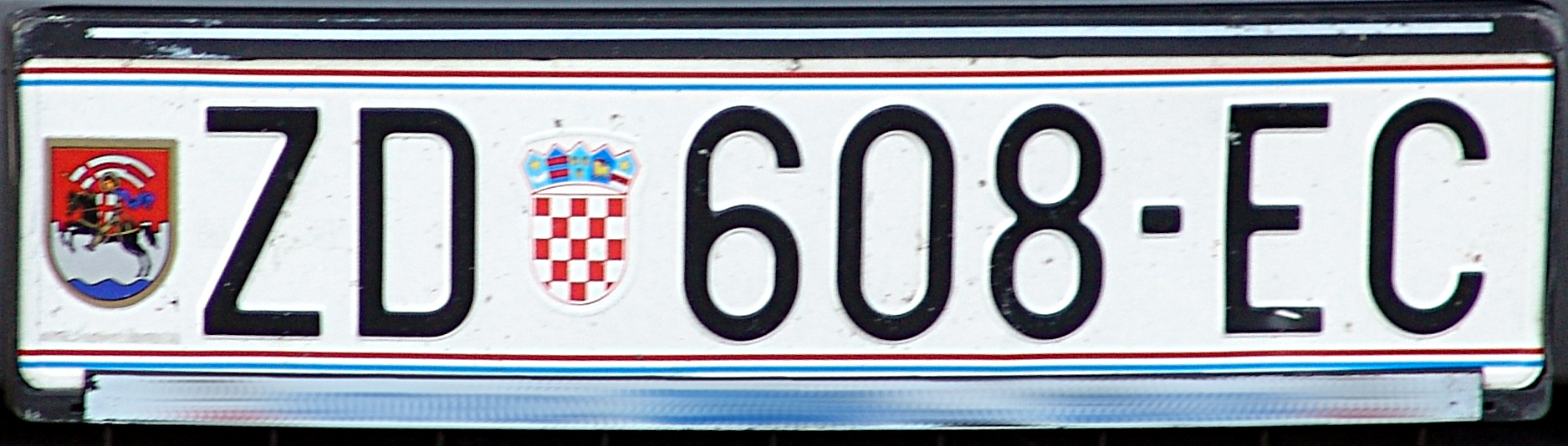 Croatian license plate on an Audi A4, picture taken in Monaco. Standard Croatian license plate used on both private and commercial vehicles. ZD stands for Zadar. The left-most emblem is a custom sticker, but according to Croatian law, gluing stickers on license plates is considered as forgery of documents.